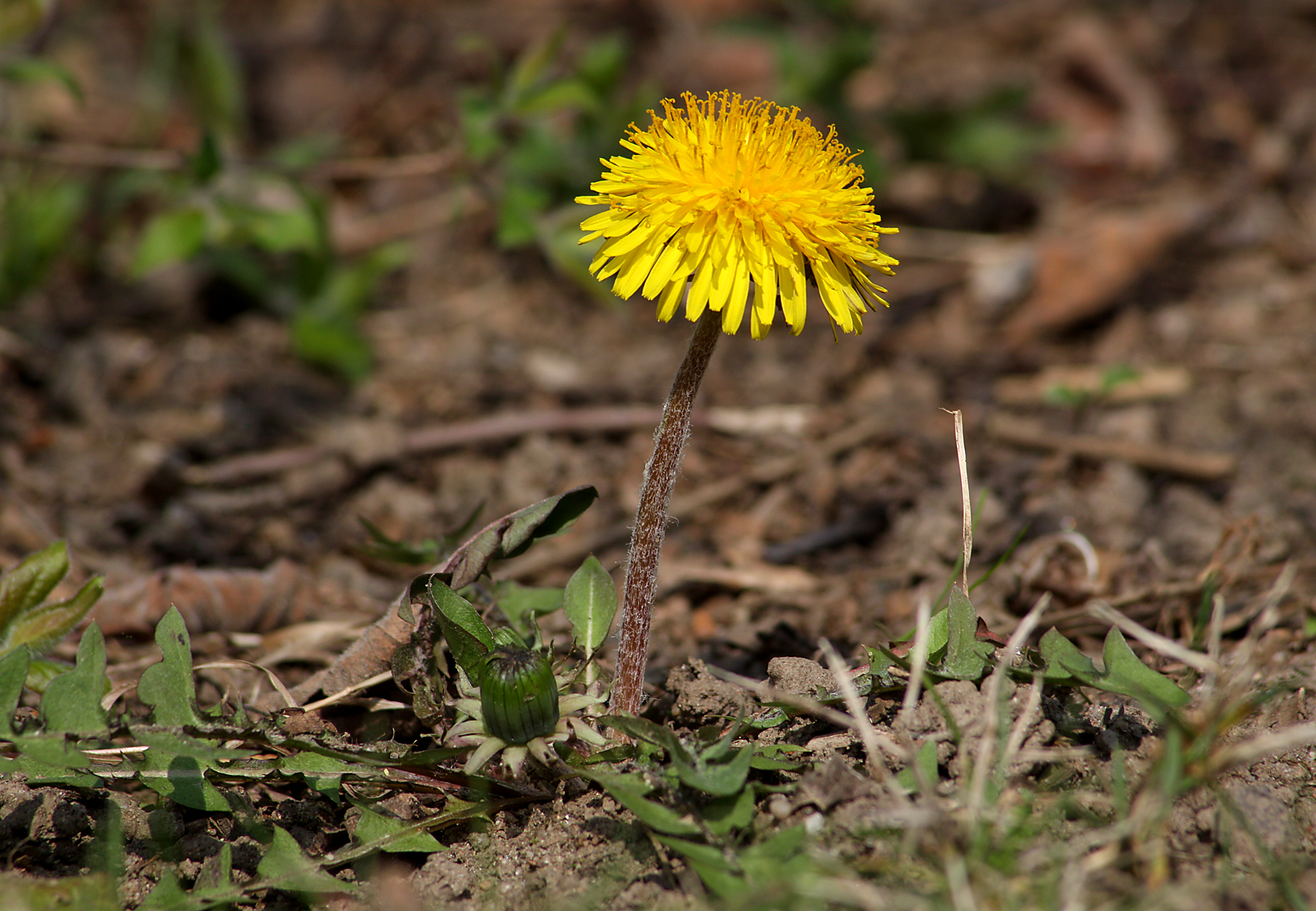 Taraxacum officinale